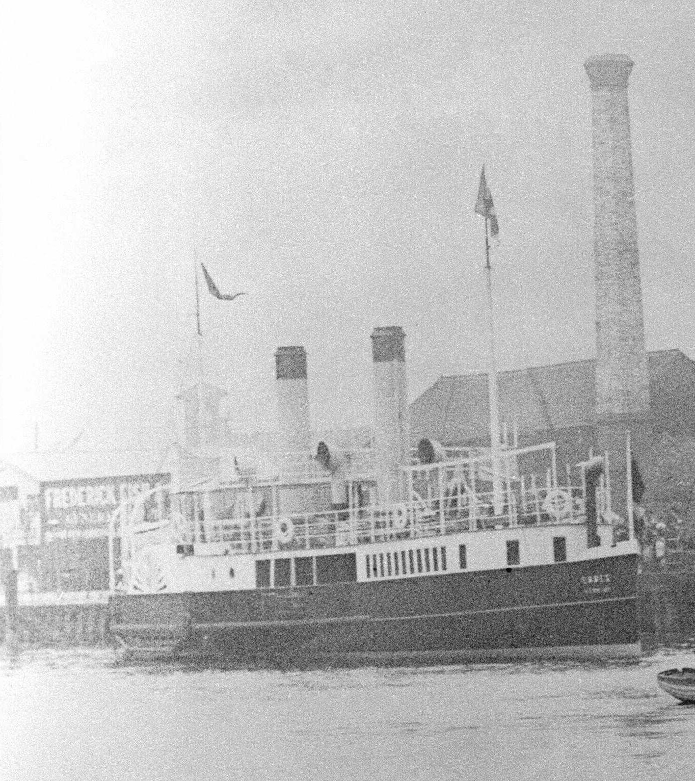 Reproduction ID: P27528 Maker: Smiths Suitall Ltd Date: circa 1904 Materials: Polyester negative